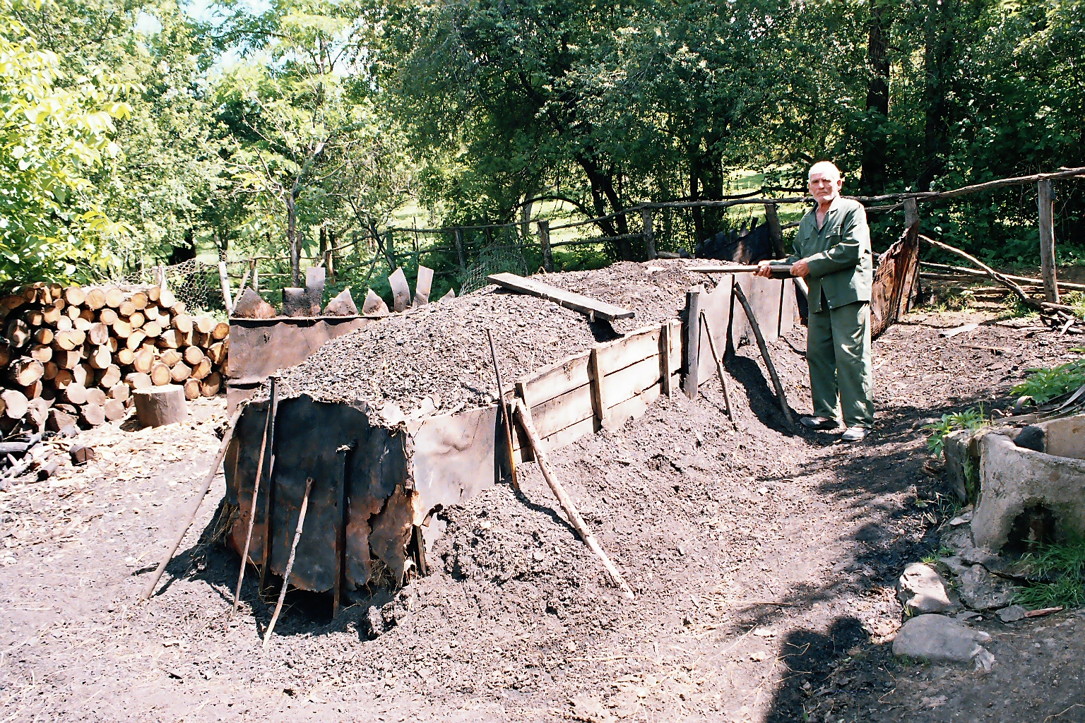 Kumur (what is this? compost, coalmaking?)